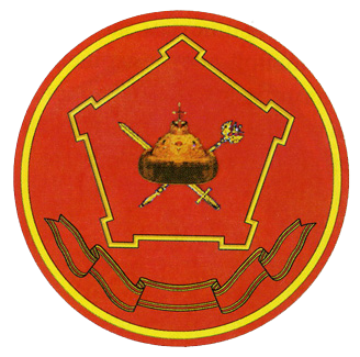 Moscow Military District sleeve insignia